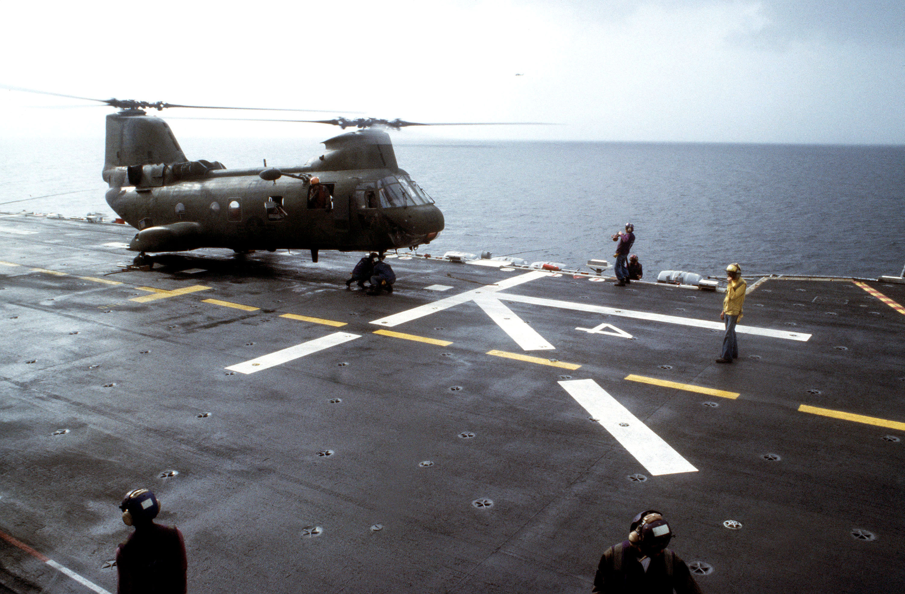 A U.S. Marine Corps Boeing CH-46 Sea Knight helicopter Marine Medium Helicopter Transport Squadron HMM-261 Raging Bulls on the flight deck of the amphibious assault ship USS Guam (LPH-9) during "Operation Urgent Fury", the invasion of Granada, 28 October 1983.